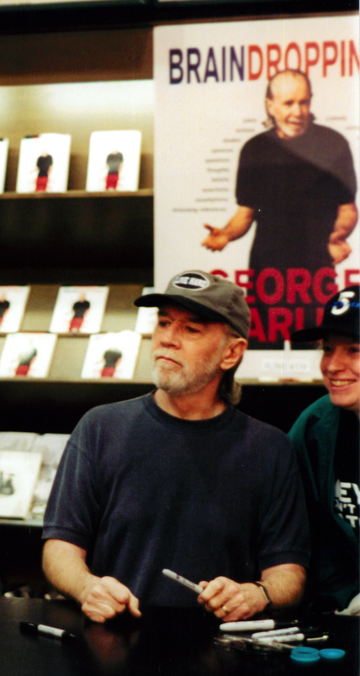 George Carlin at a signing for Brain Droppings